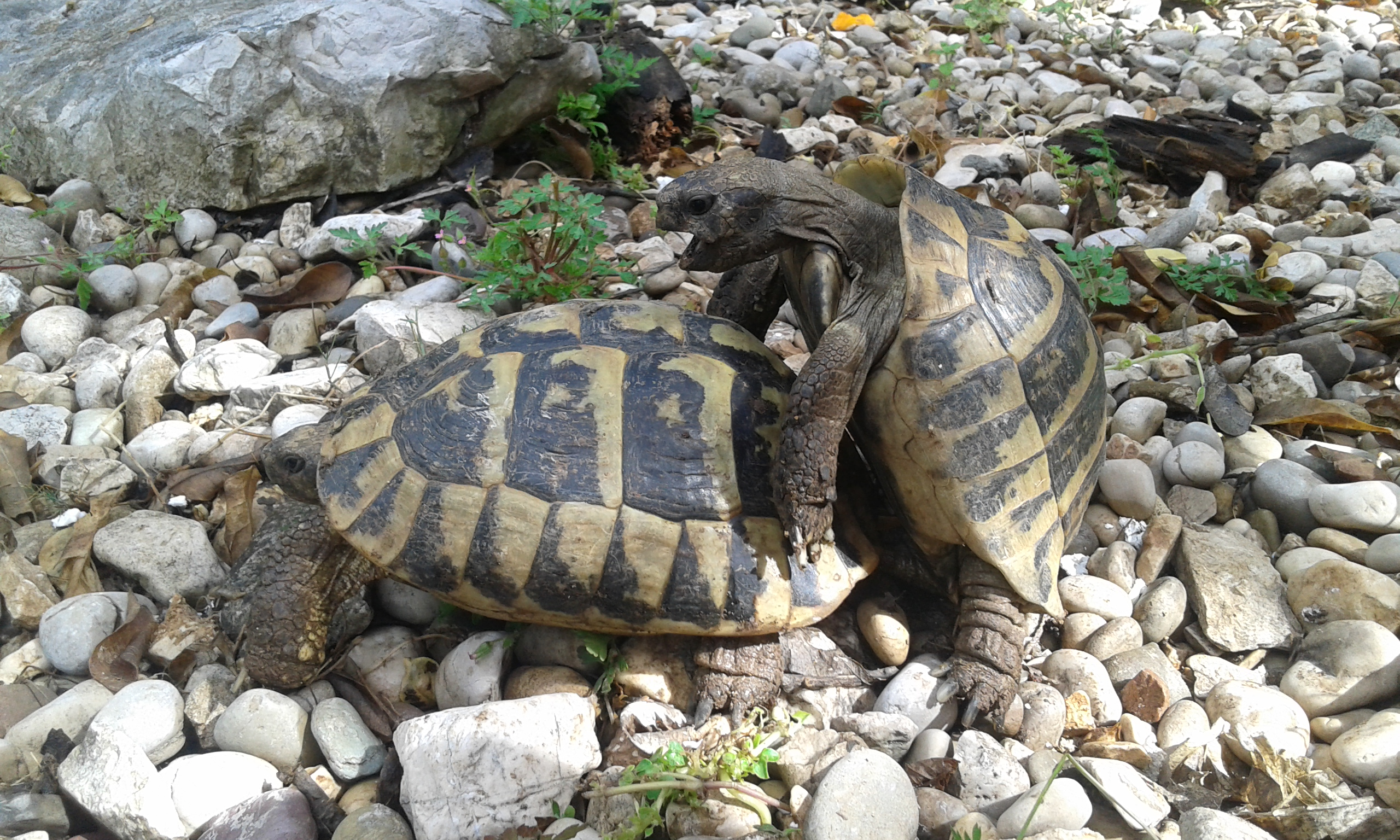 Turtles